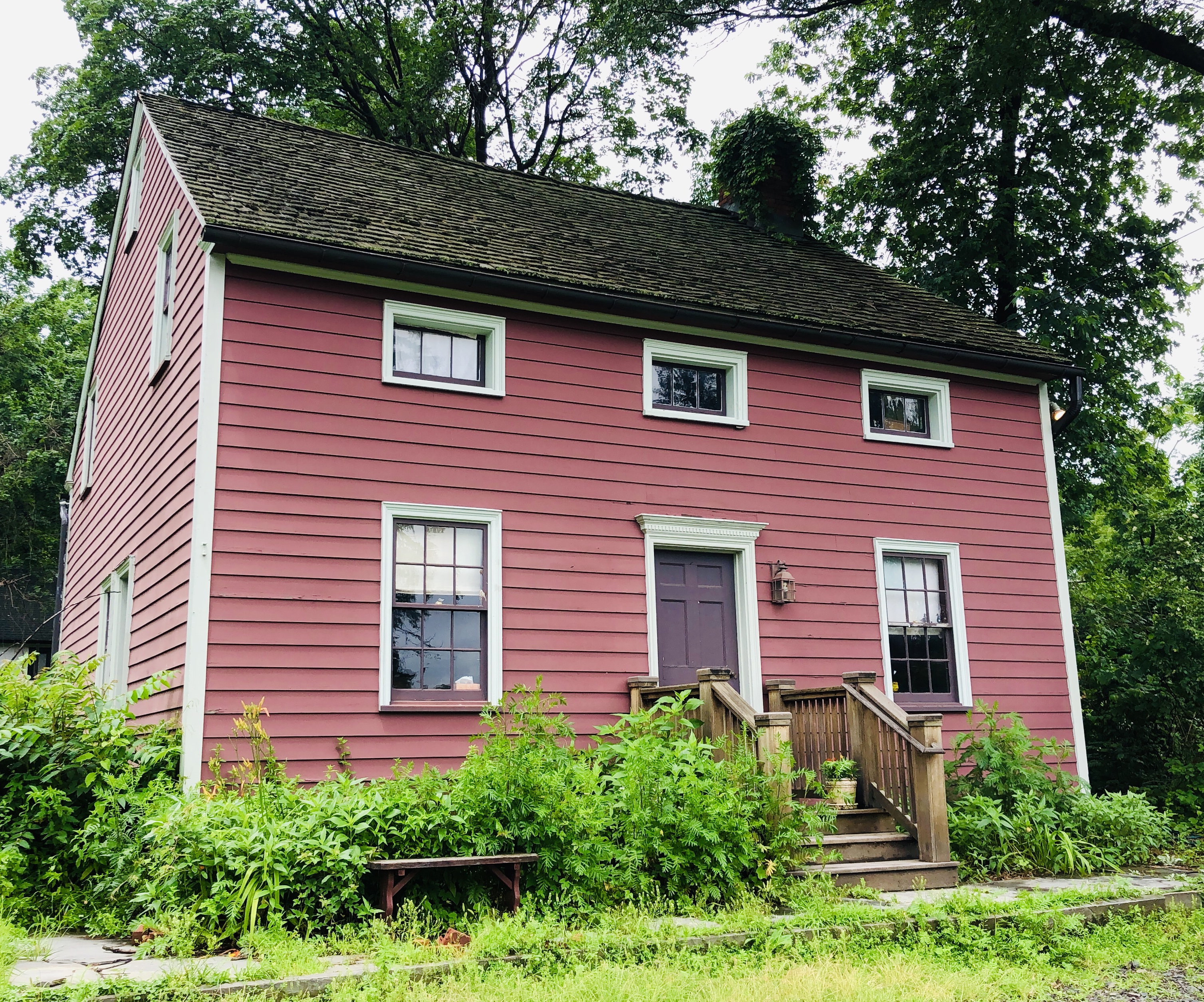 Part of the Montclair History Center Campus